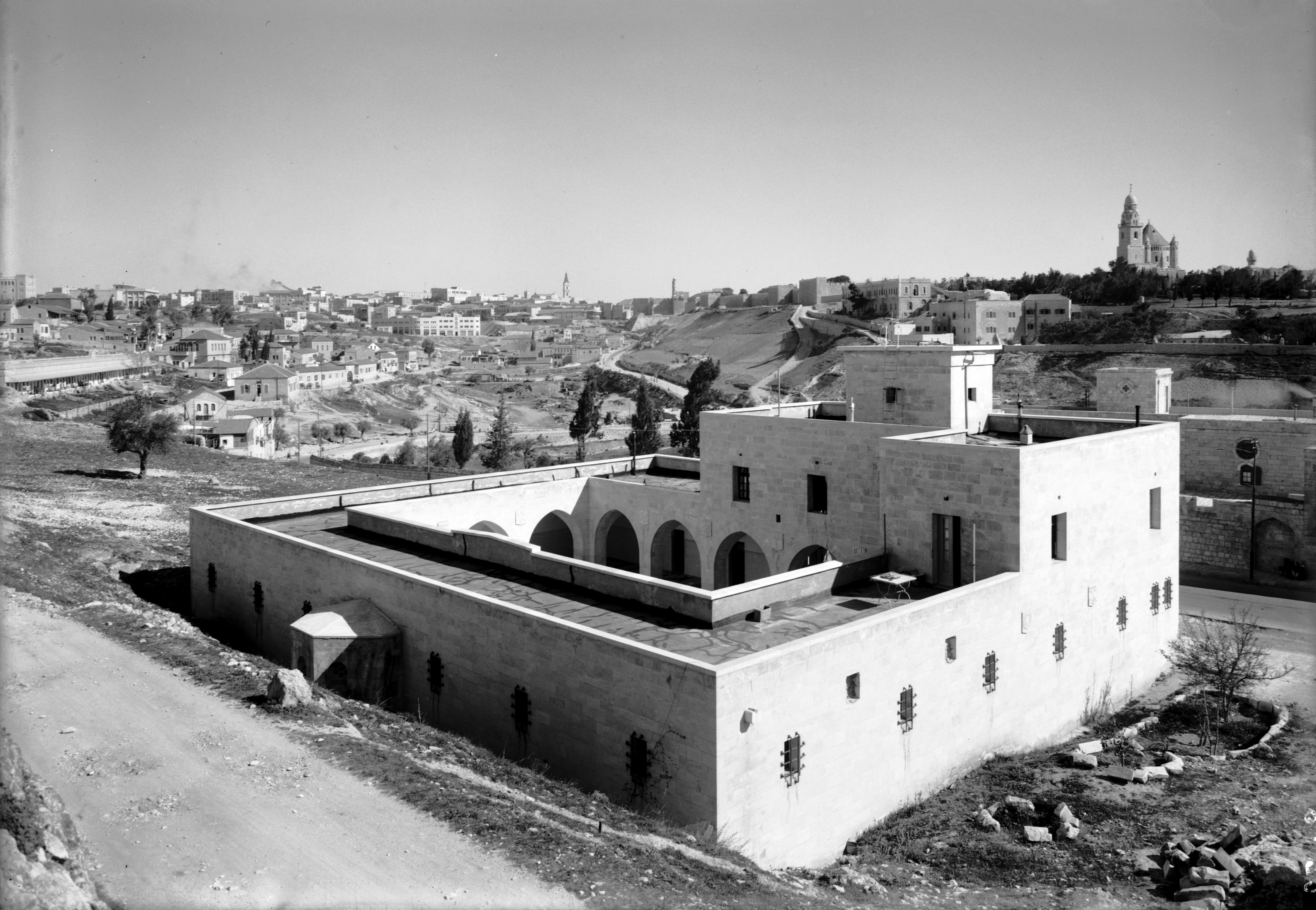 Opthalmic [i.e. Ophthalmic] Hospital from St. Andrew's Church